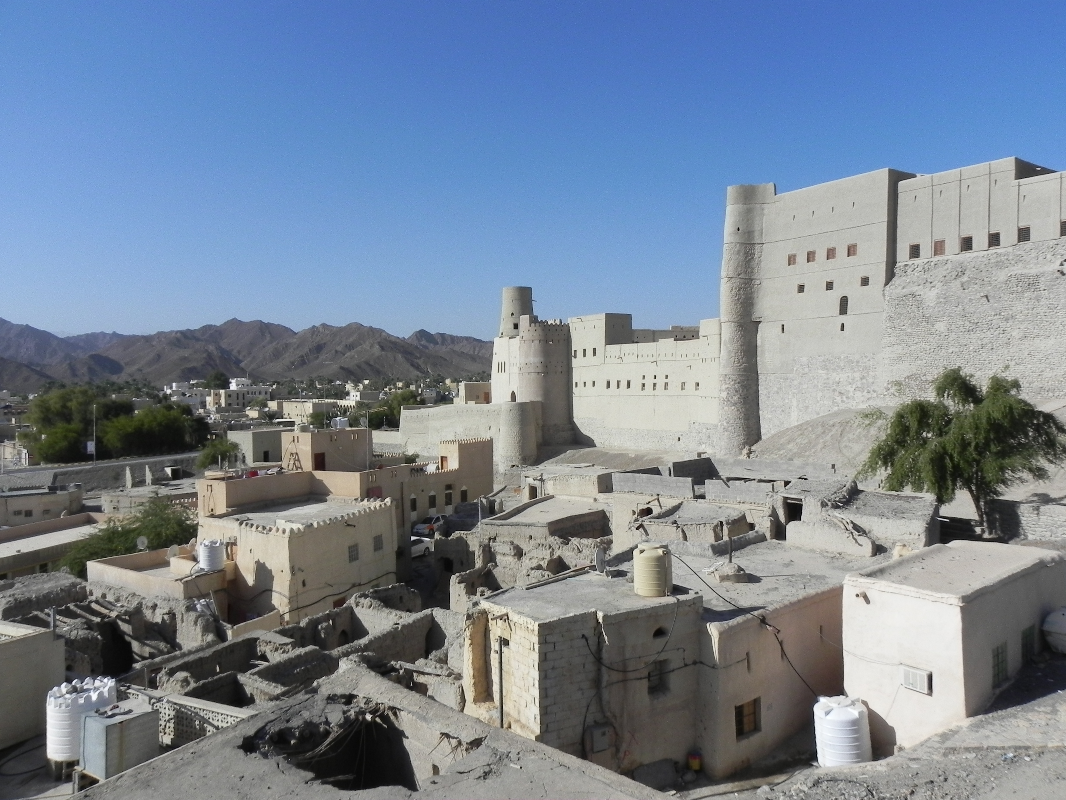 A charming Omani man stopped to show a group of expat tourists where we could walk up to the roof of the Friday Mosque, with it's excellent views back over the Bahla fort and the town.